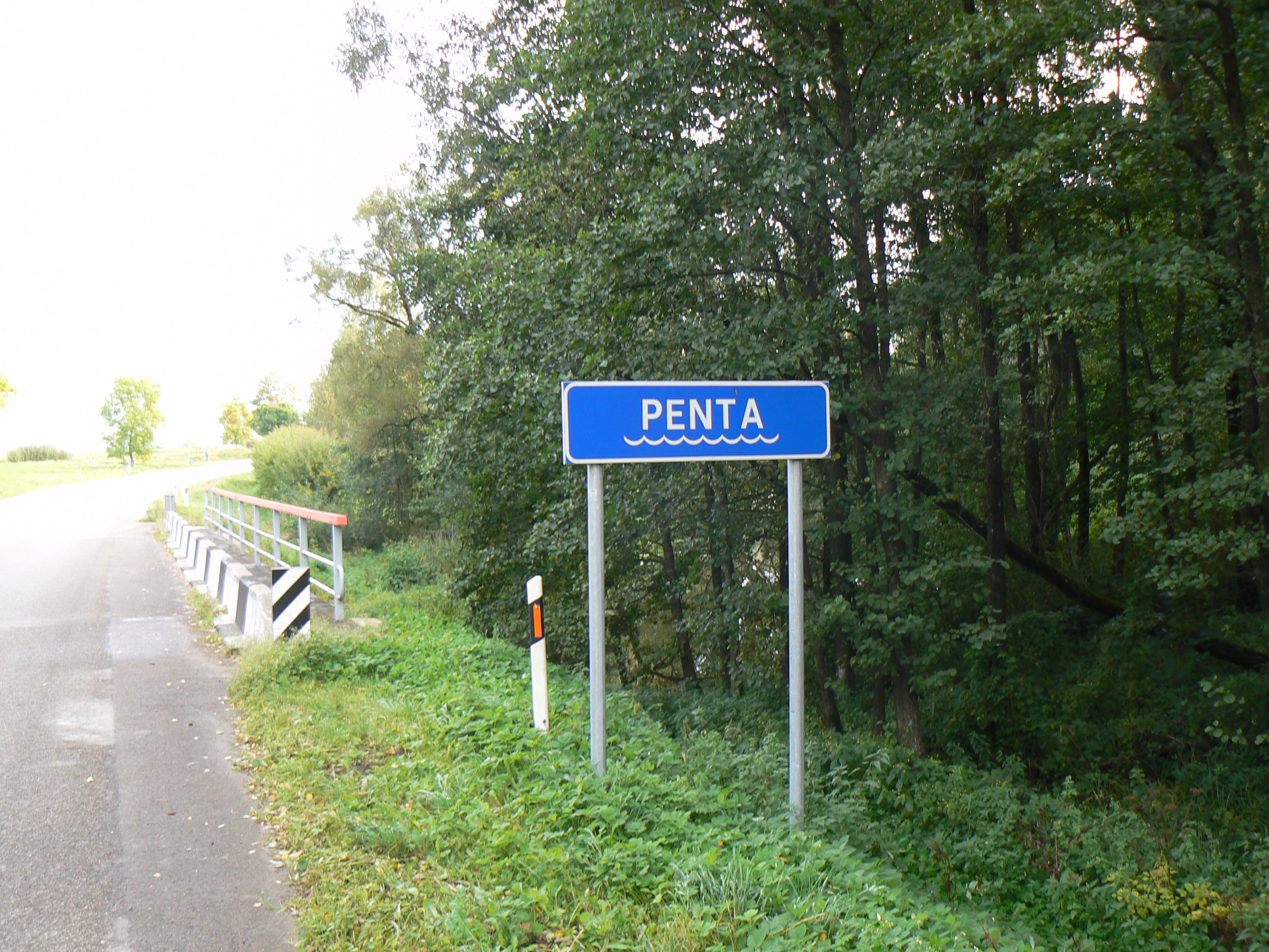 River Penta.